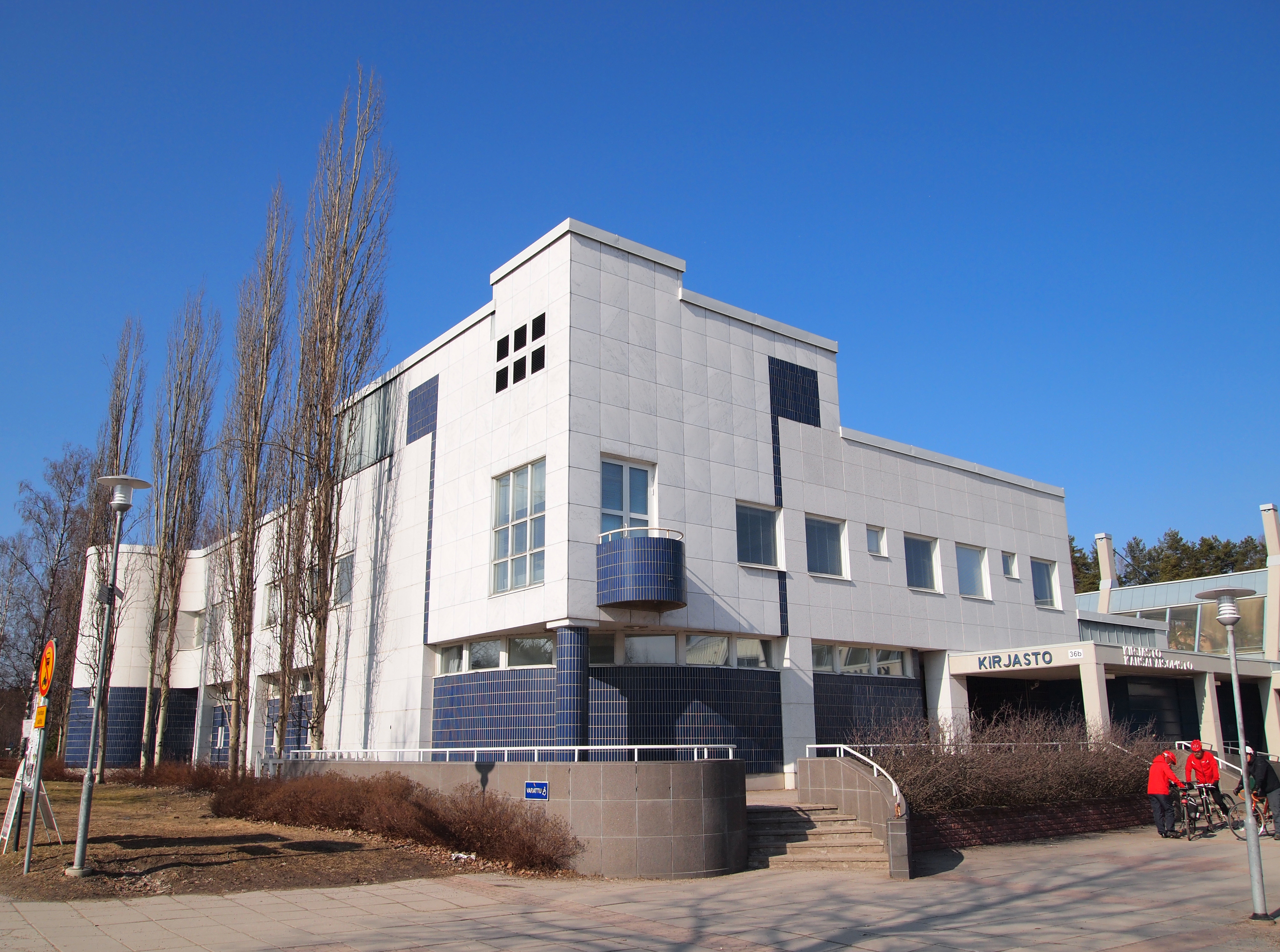 Vaajakoski library in Jyväskylä.